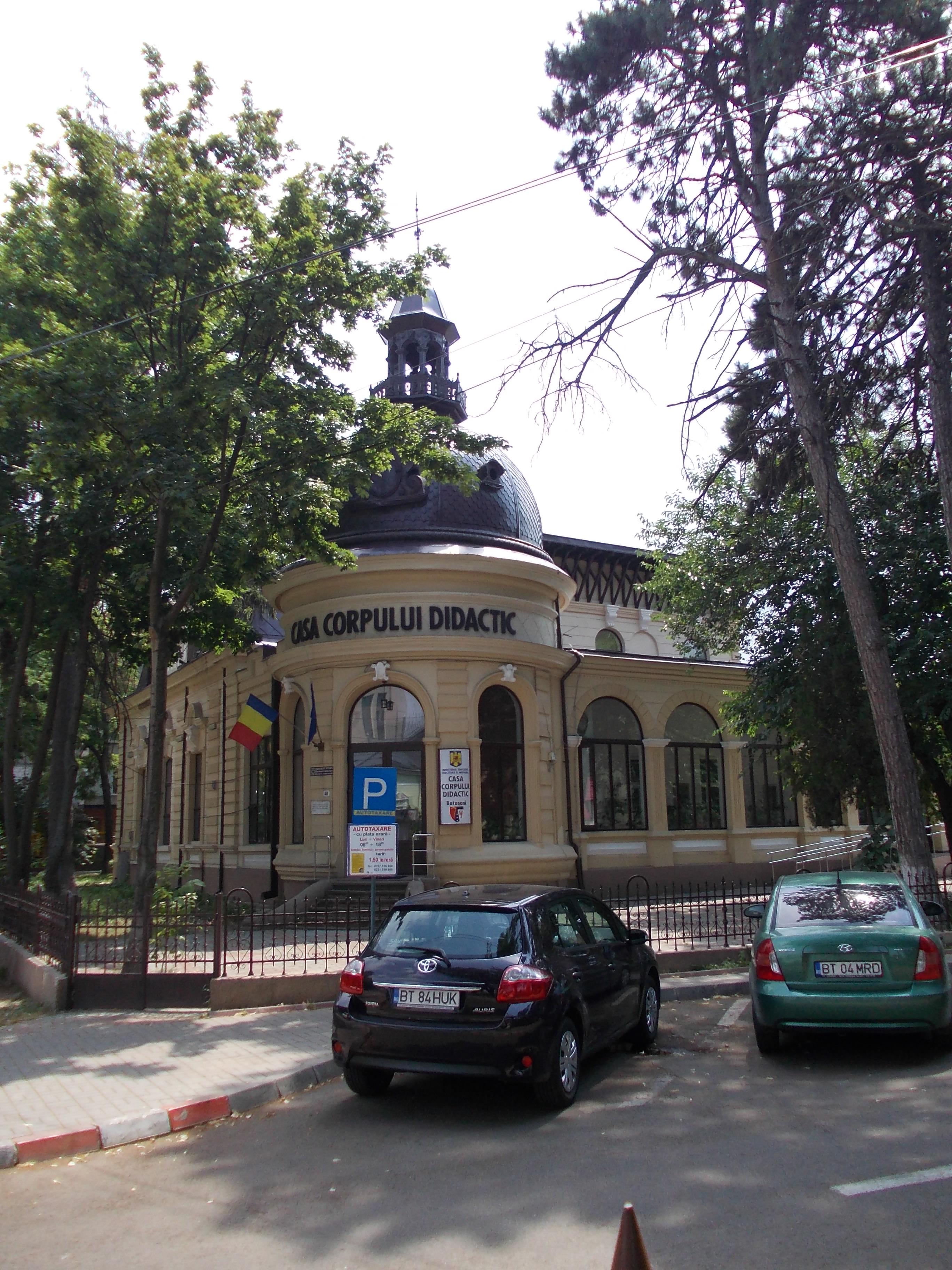 Casa corpului didactic Botoşani